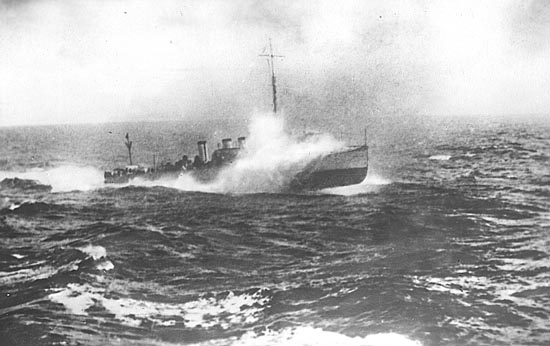 Swedish Torpedo boat Destroyer "Ragnar"